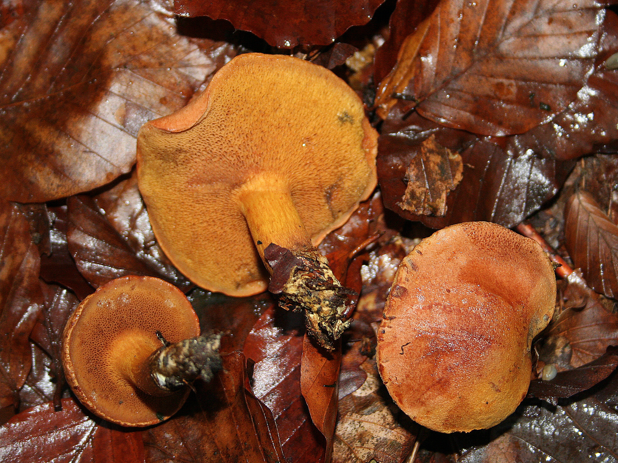 Pepperly bolete